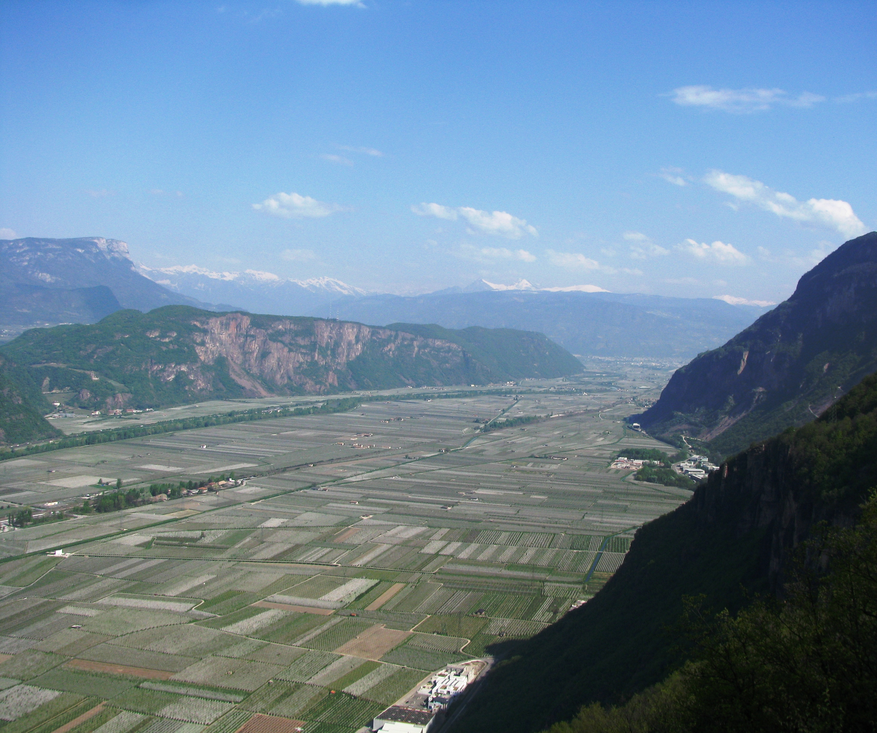 In the Italian wine region of Trentino-Alto Adige/Südtirol